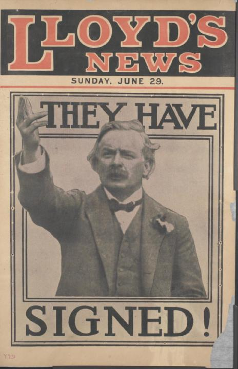 Placard for Lloyd's News : "THEY HAVE SIGNED !" announcing the signing of the Treaty of Versailles.